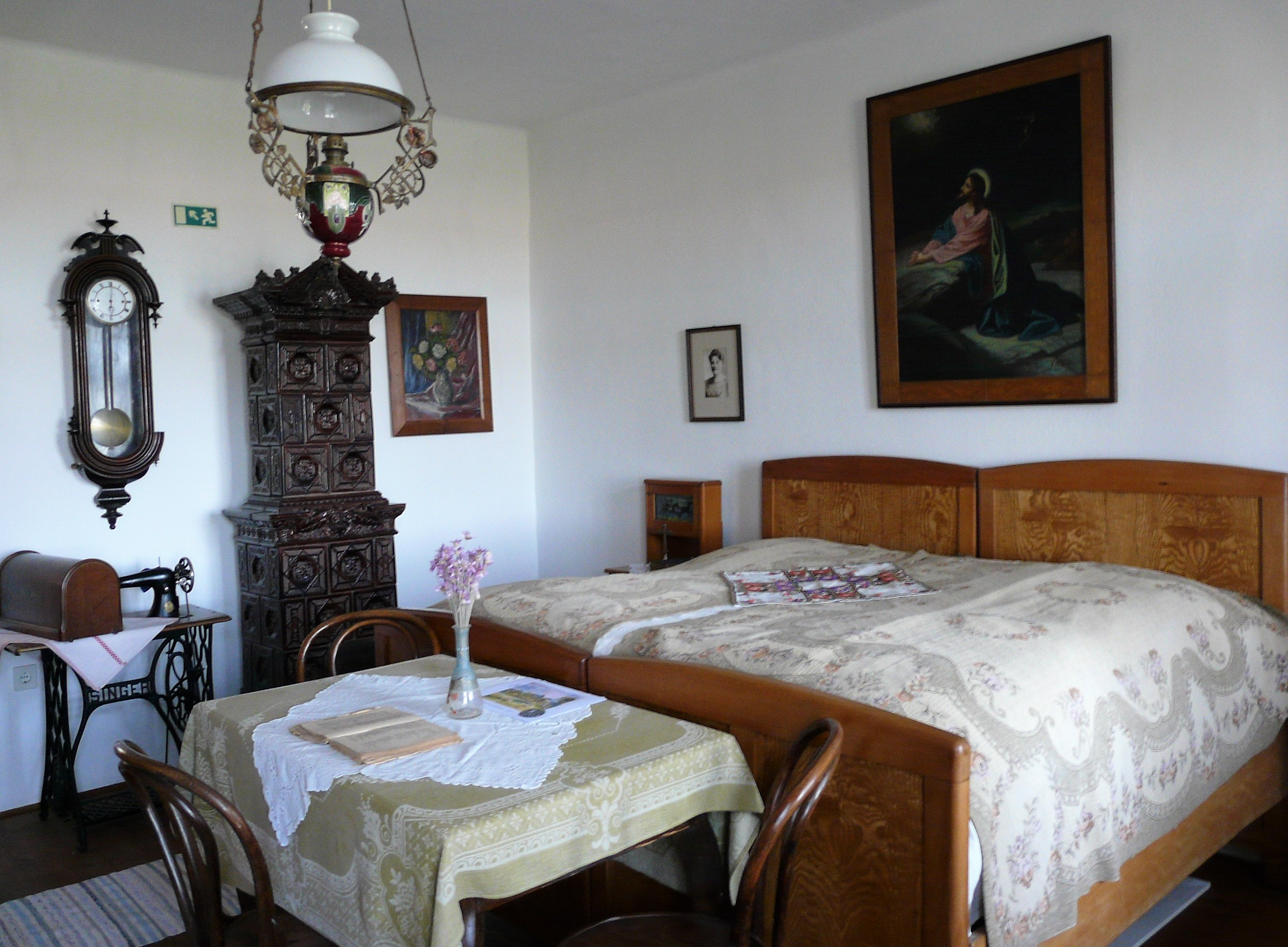 Memorial house of Hungarian poet Laszlo Nagy in Iszkáz (Veszprém County)